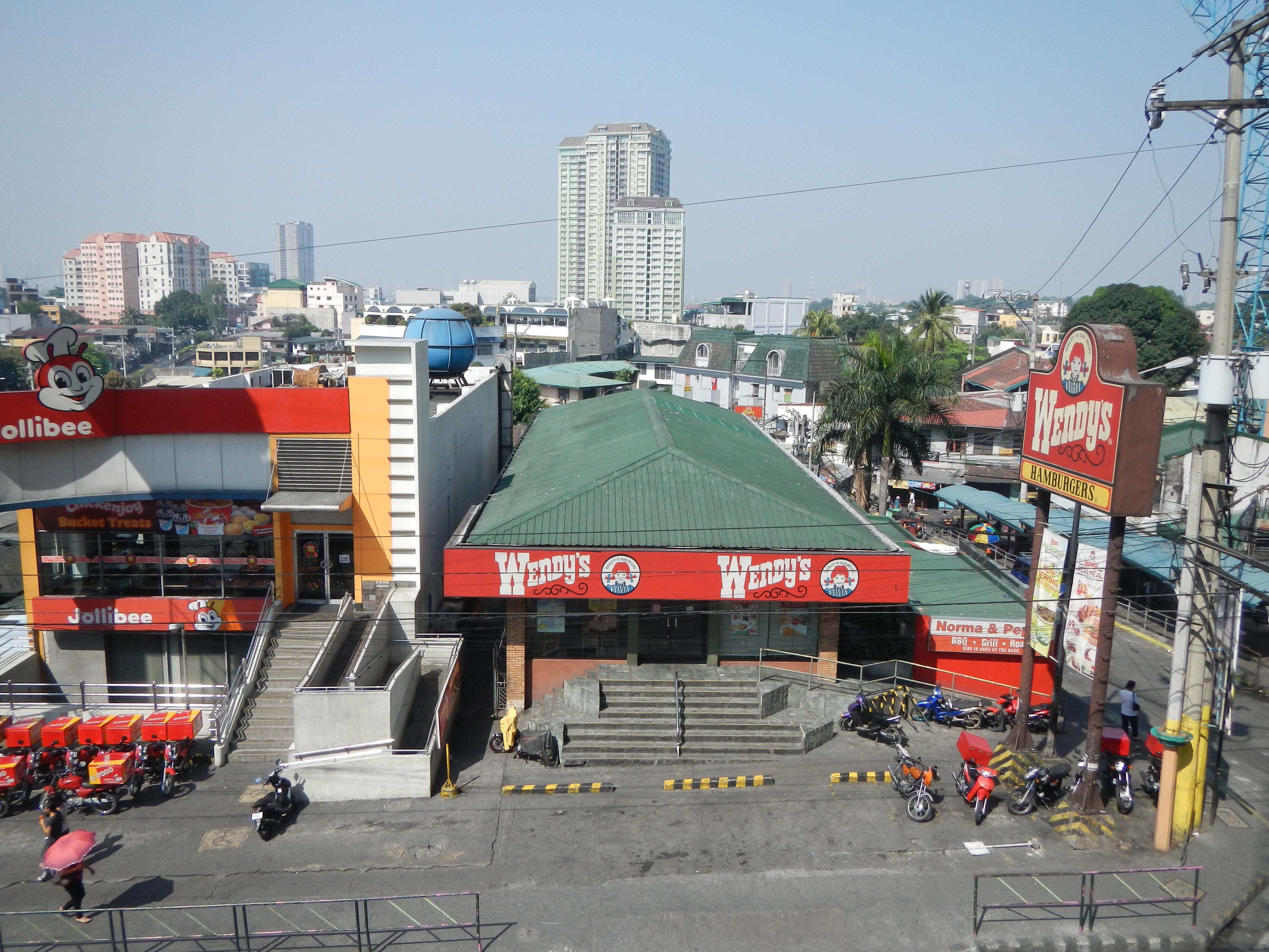 Jollibee and Wendy's on EDSA and Pinatubo in Mandaluyong.